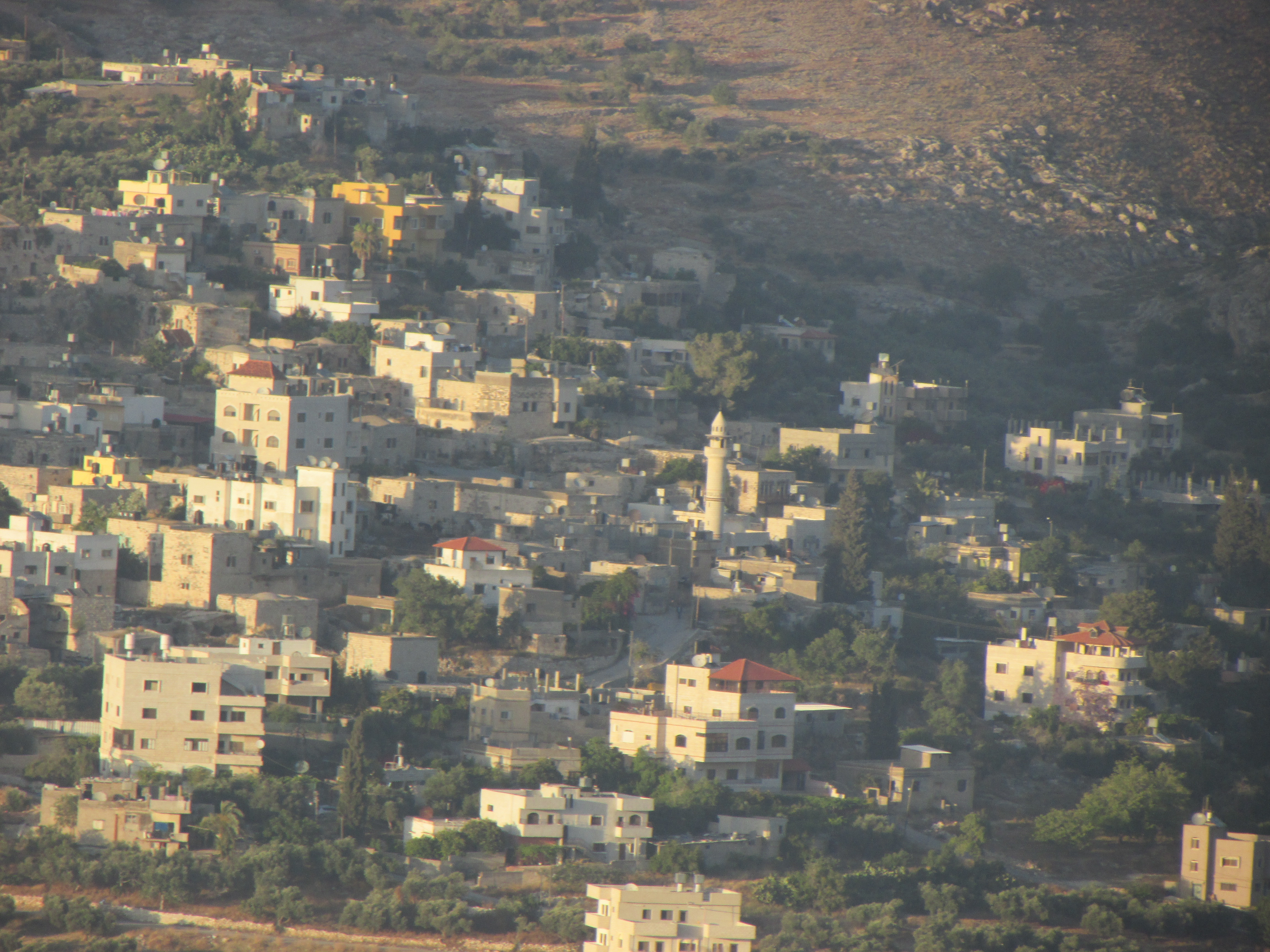 Burin from south west (Yitzhar)